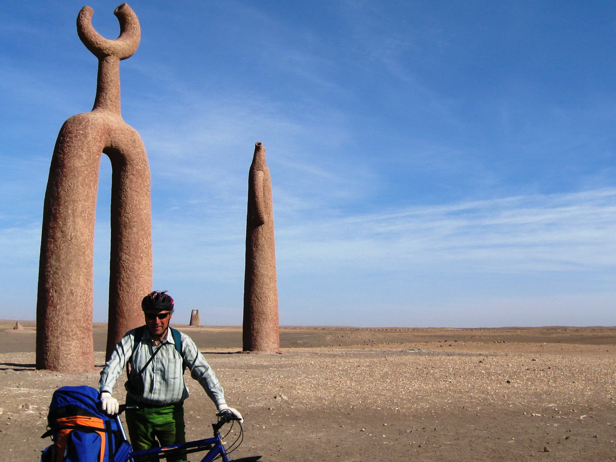 Vladimir Lysenko in Chile during his Around-the-World trip on a Bicycle